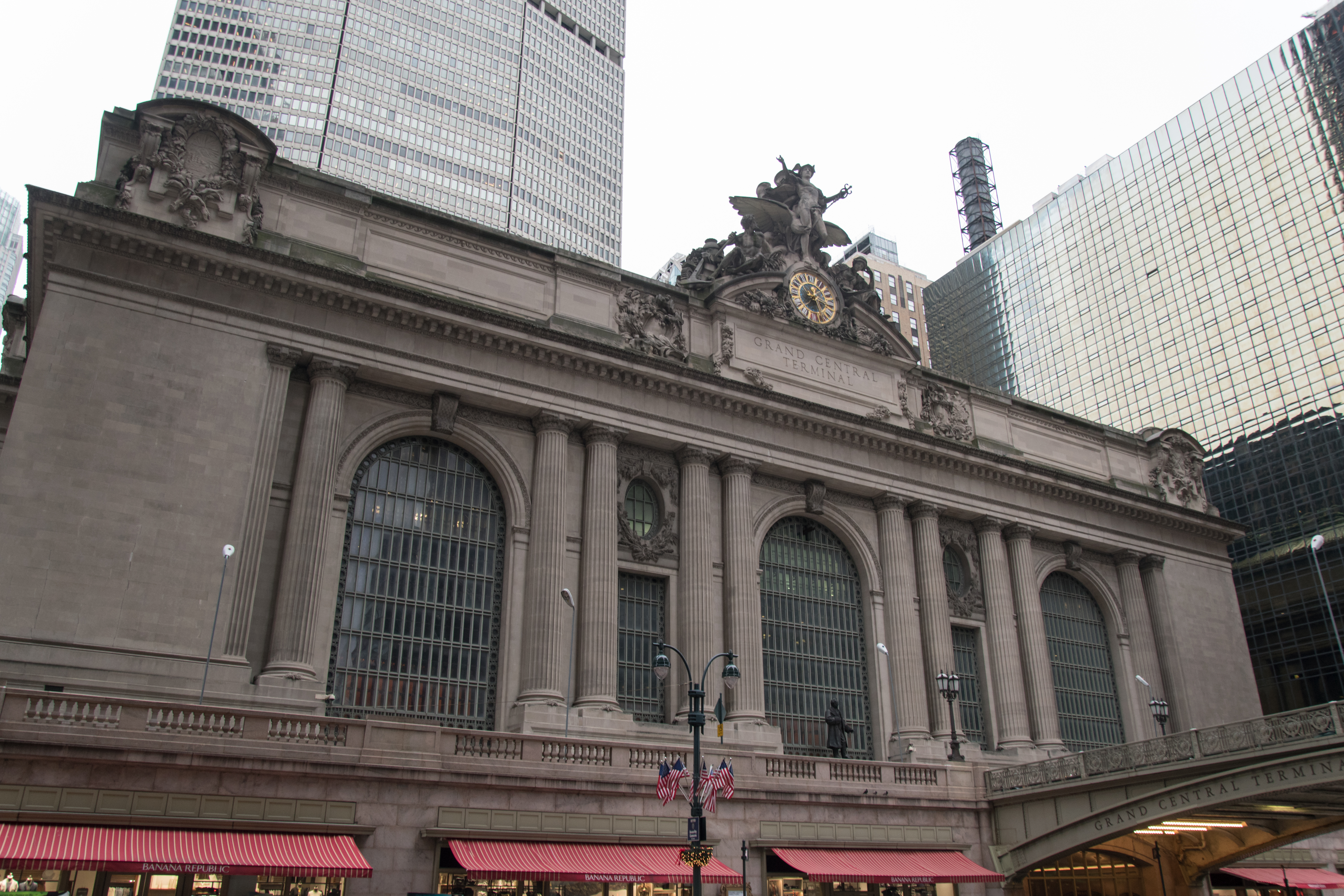 42nd St facade of New York City's Grand Central Terminal in 2019. taken as part of a scheduled photoshoot with three other Wikipedians on January 7, 2019.